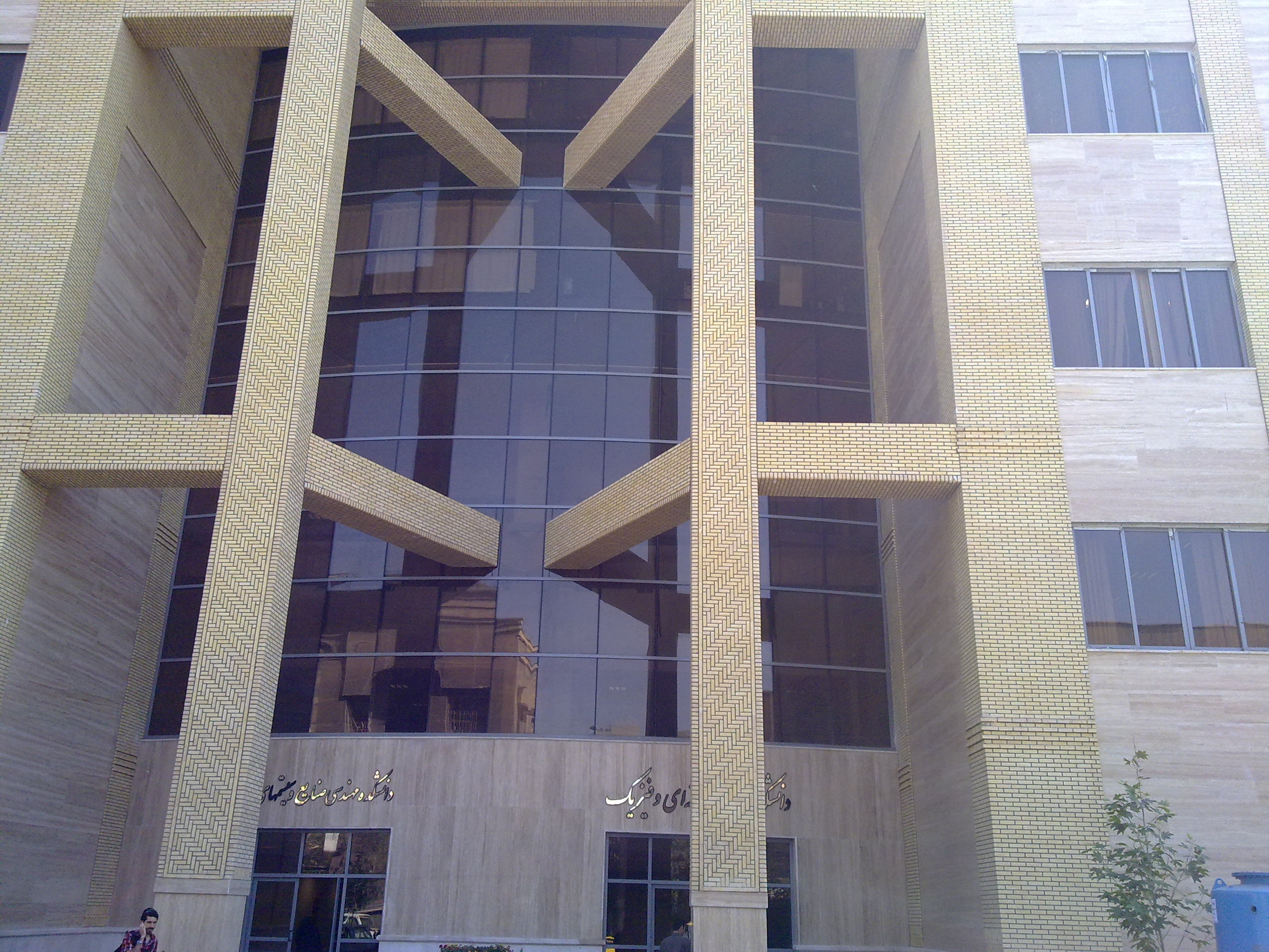 Industrial engineering department (left) and "Nuclear Engineering and Physics" department (right) of Amirkabir University of Technology, Tehran, Iran